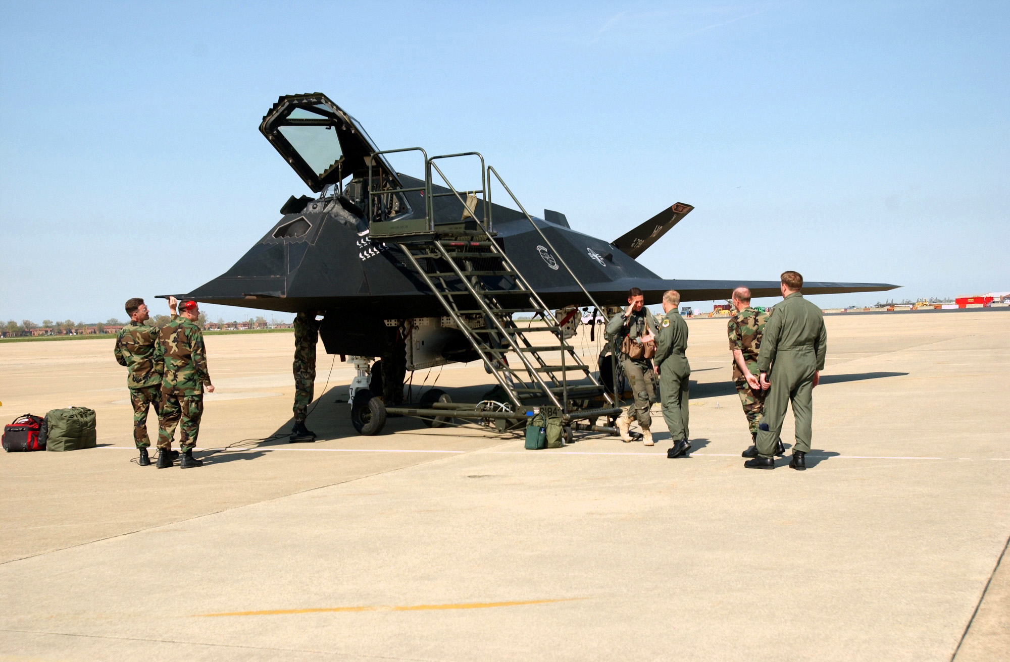 US Air Force (USAF) Colonel (COL) Steve Miller, Commander, 1st Fighter Wing (FW), Langley Air Force Base (AFB), Virginia (VA), and members of his staff are on hand to greet US Air Force (USAF) F-117A Nighthawk stealth fighter aircraft from the 49th Fighter Wing (FW), Holloman AFB, New Mexico (NM), during a scheduled stopover at Langley, as the aircraft are enroute to their home base following a deployment to Iraq, supporting Operation IRAQI FREEDOM.